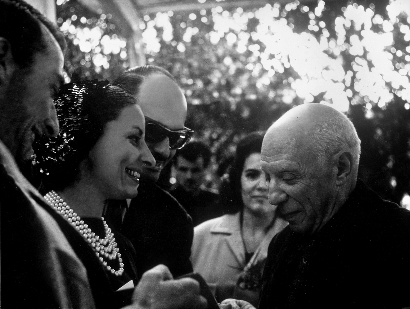 Harold Gramatges con Alicia Alonso y Pablo Piacasso, Niza, Francia